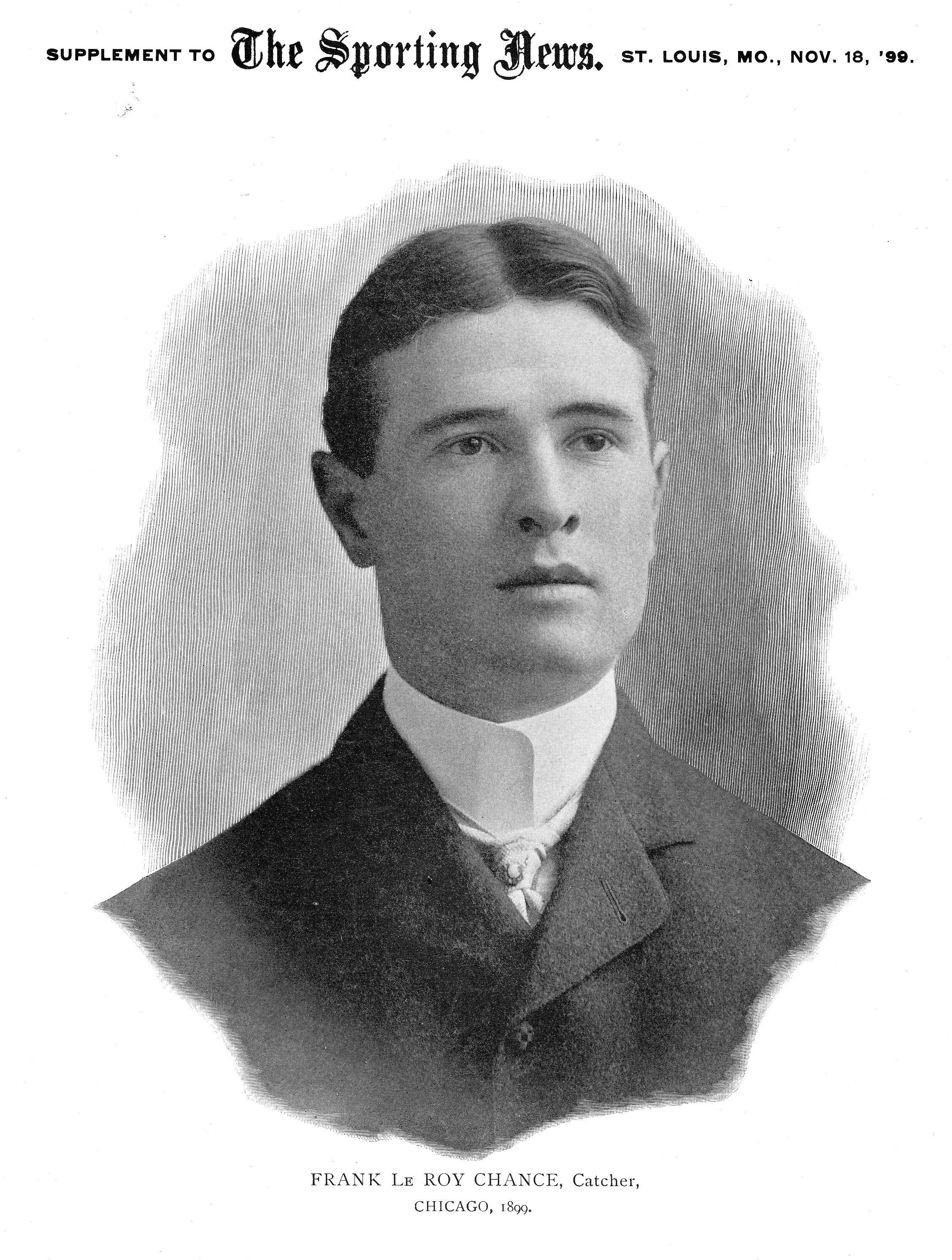 Professional baseball player Frank Chance